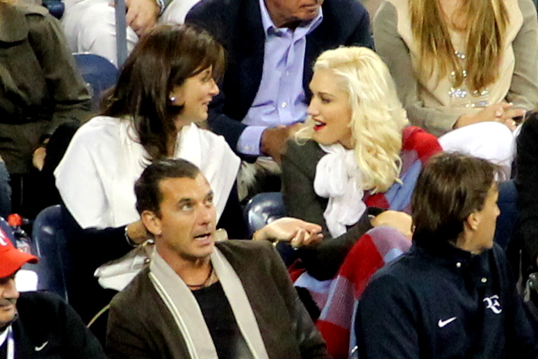 Mirka Federer (second row, left) with Gwen Stefani (second row on right) and Gavin Rossdale (front row on left) at the US Open on Wednesday night watching Roger Federer's win against Robin Soderling. The Cosmopolitan is in New York for the 2010 US Open, inviting attendees and guests to experience signature views from our Overlook and in our custom designed suite with prime-stadium seating. For more information on The Cosmopolitan visit